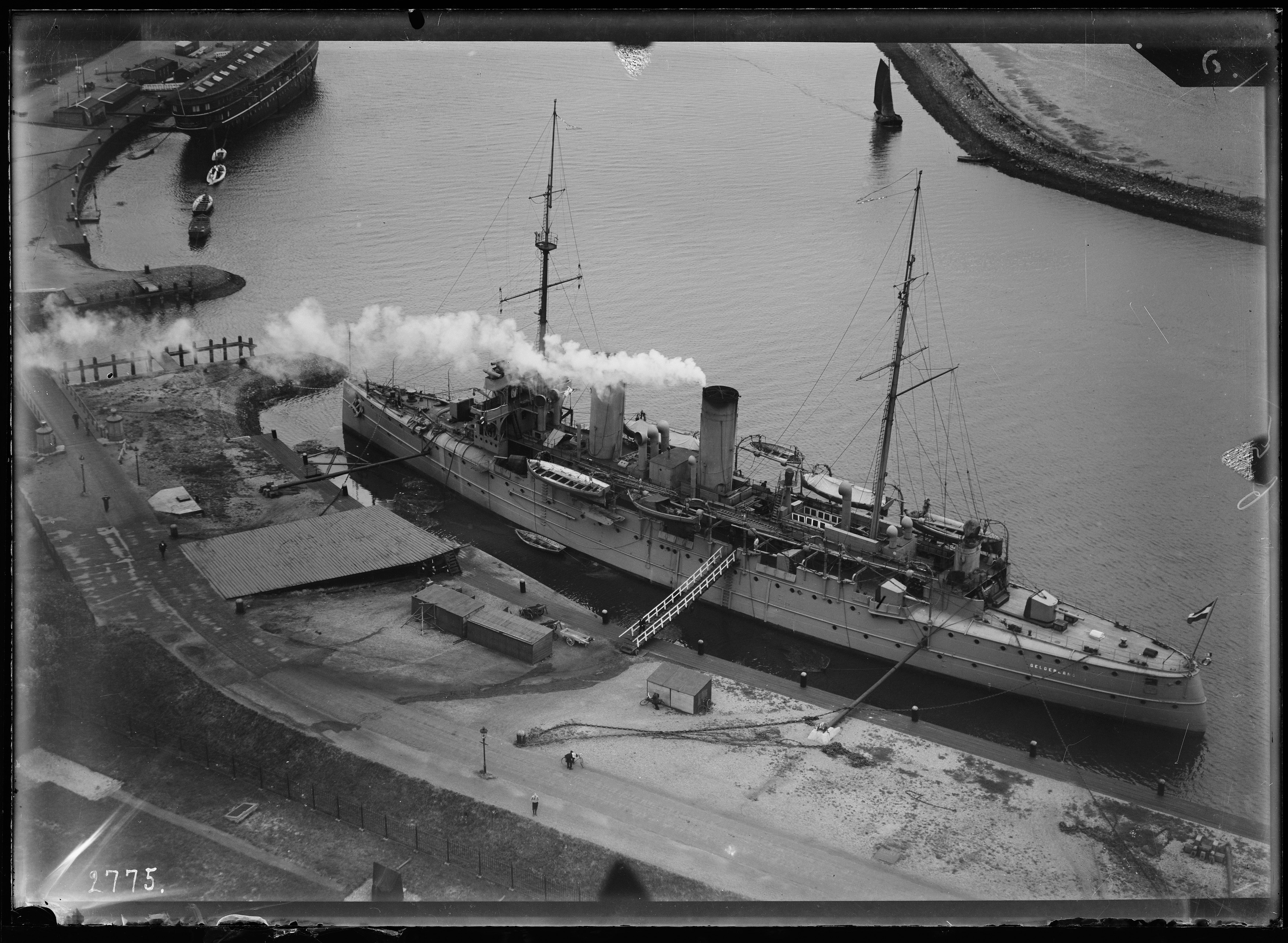 Aerial photograph of Den Helder, The Netherlands